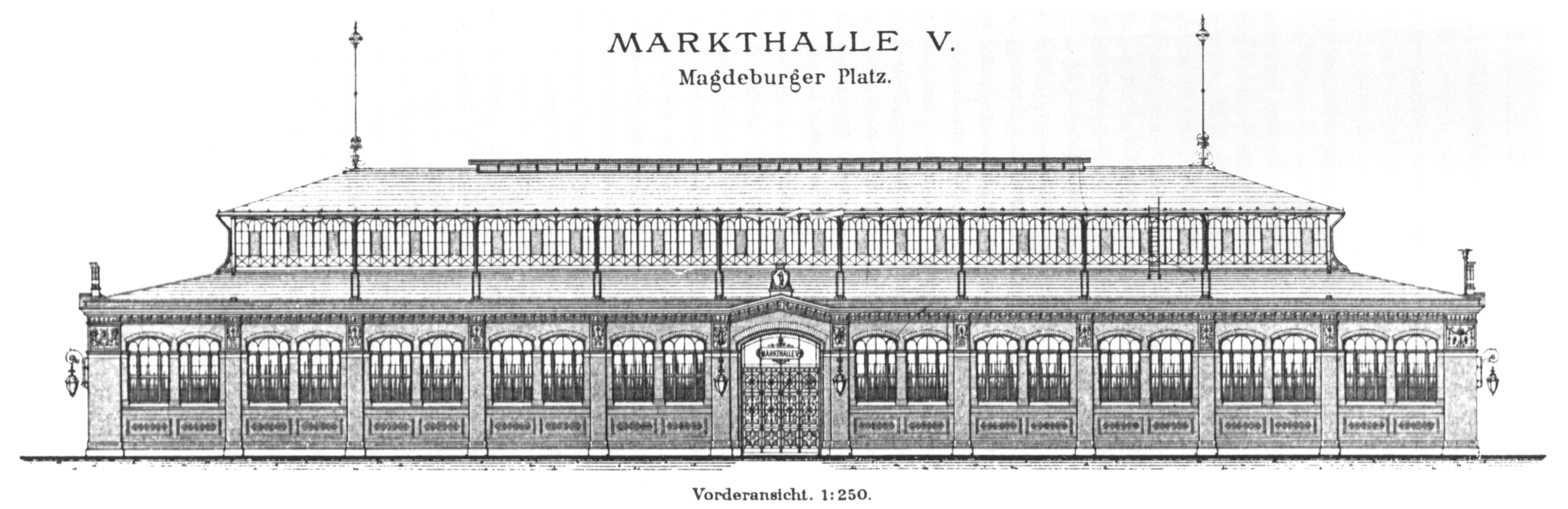 Berlin - market hall V at Magdeburgerplatz, elevation side facade